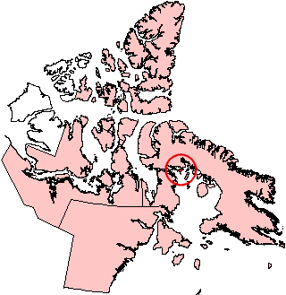 Base image created by Keith Edkins as GFDL, modified by Tim Vasquez.